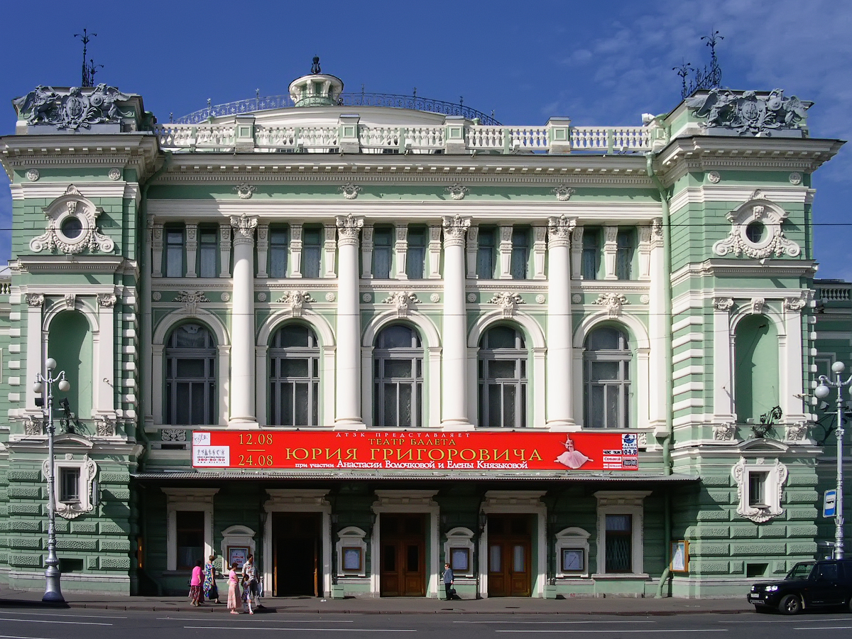 Mariinsky Theatre, entrance